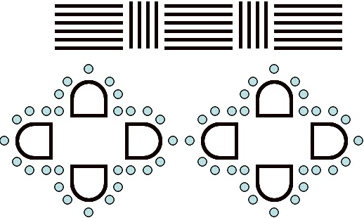 Designs found on Nipmuc baskets in the 19th centuries. The Nipmuc are an indigenous, Native American people of central Massachusetts.